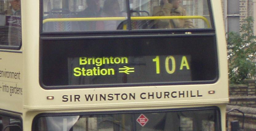 The name on the front of Brighton & Hove's 825 Sir Winston Churchill (W825 NNJ), a Dennis Trident/East Lancs Lolyne in Brighton on route 10A.